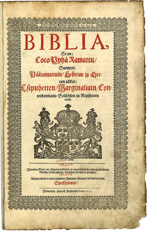 Title leaf of Biblia, first full version of Bible in Finnish, year 1642.